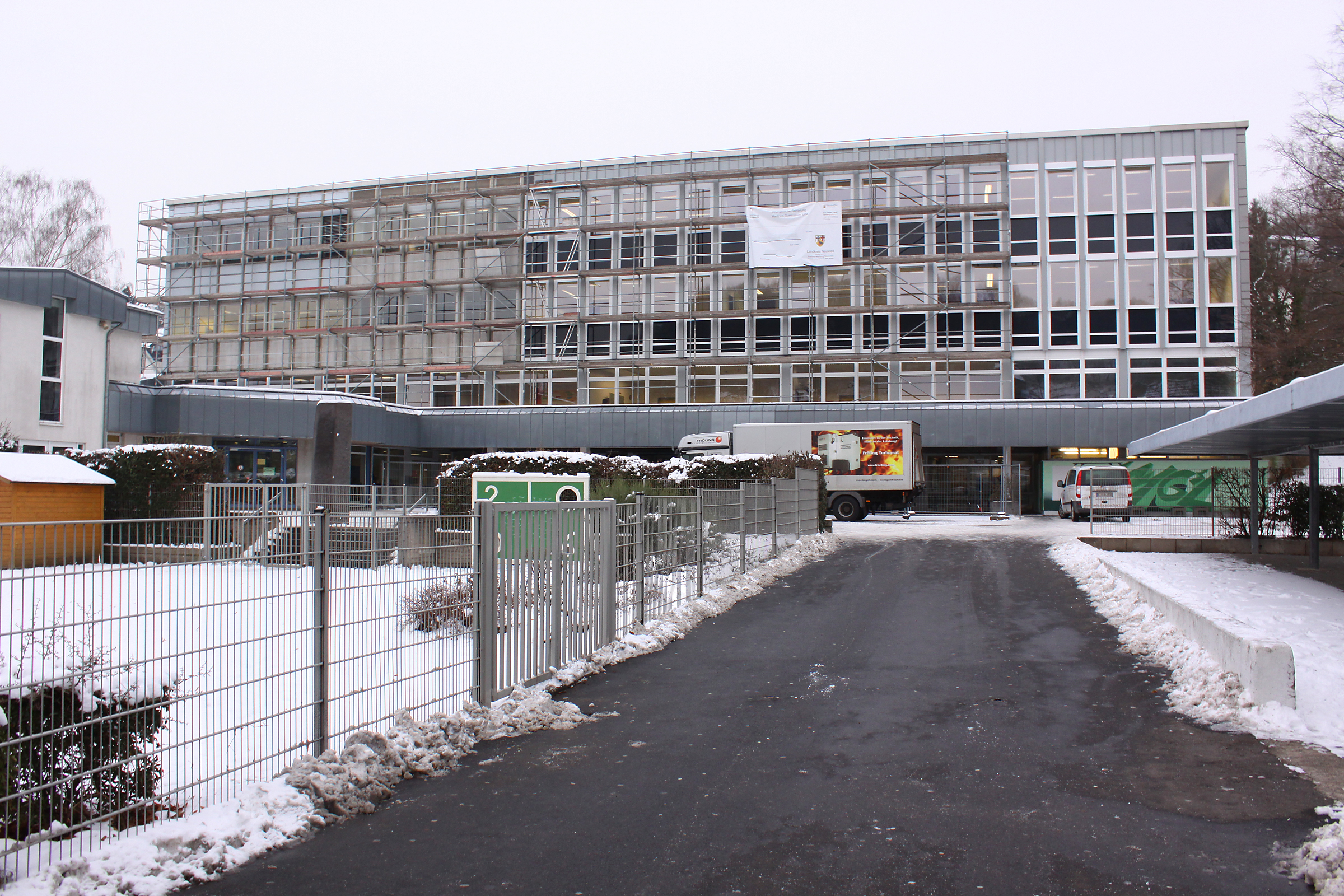 Martinus-Gymnasium in Linz am Rhein, Germany